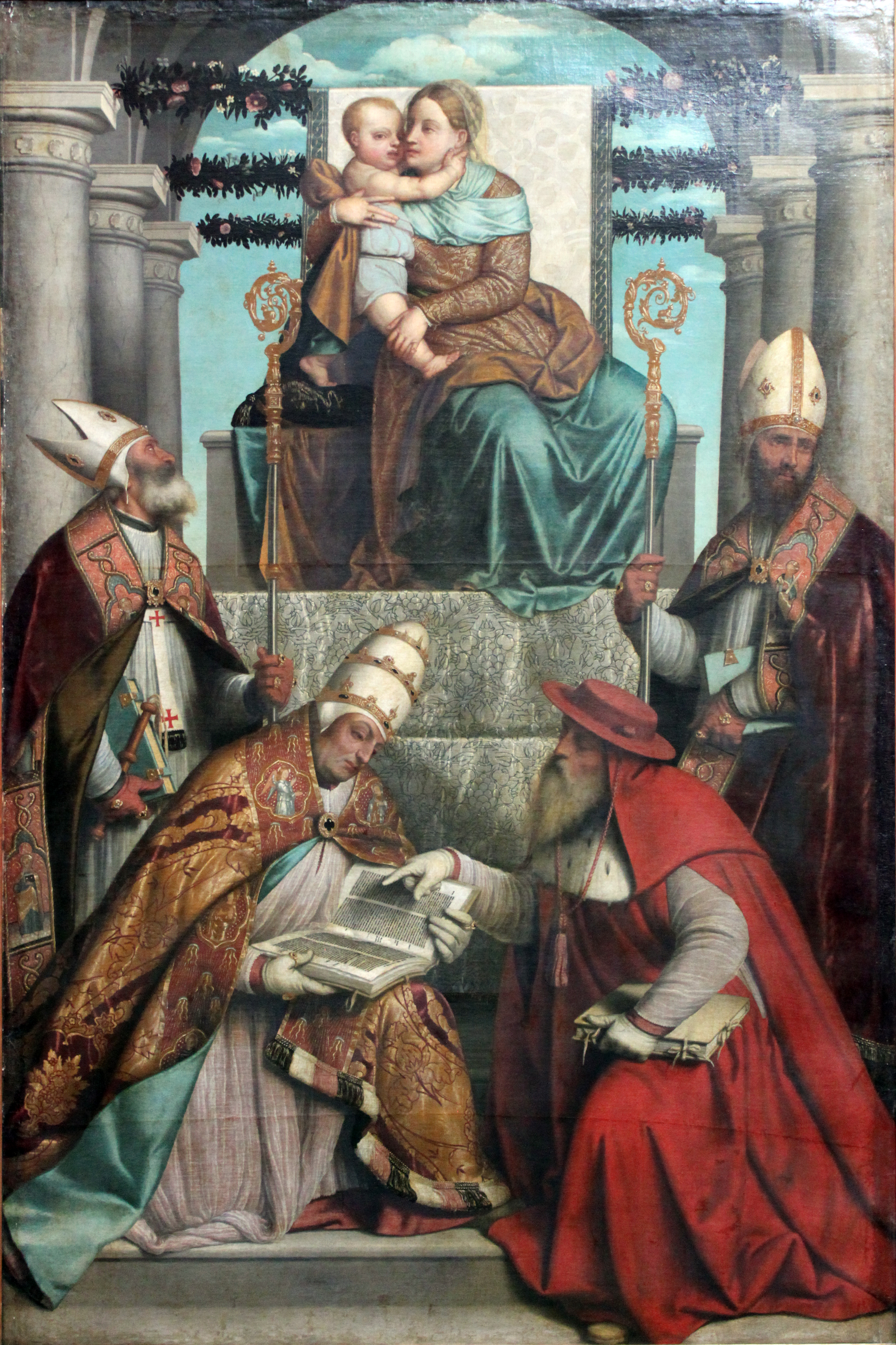 Virgin and Child Enthroned with the Four Fathers of the Latin Church